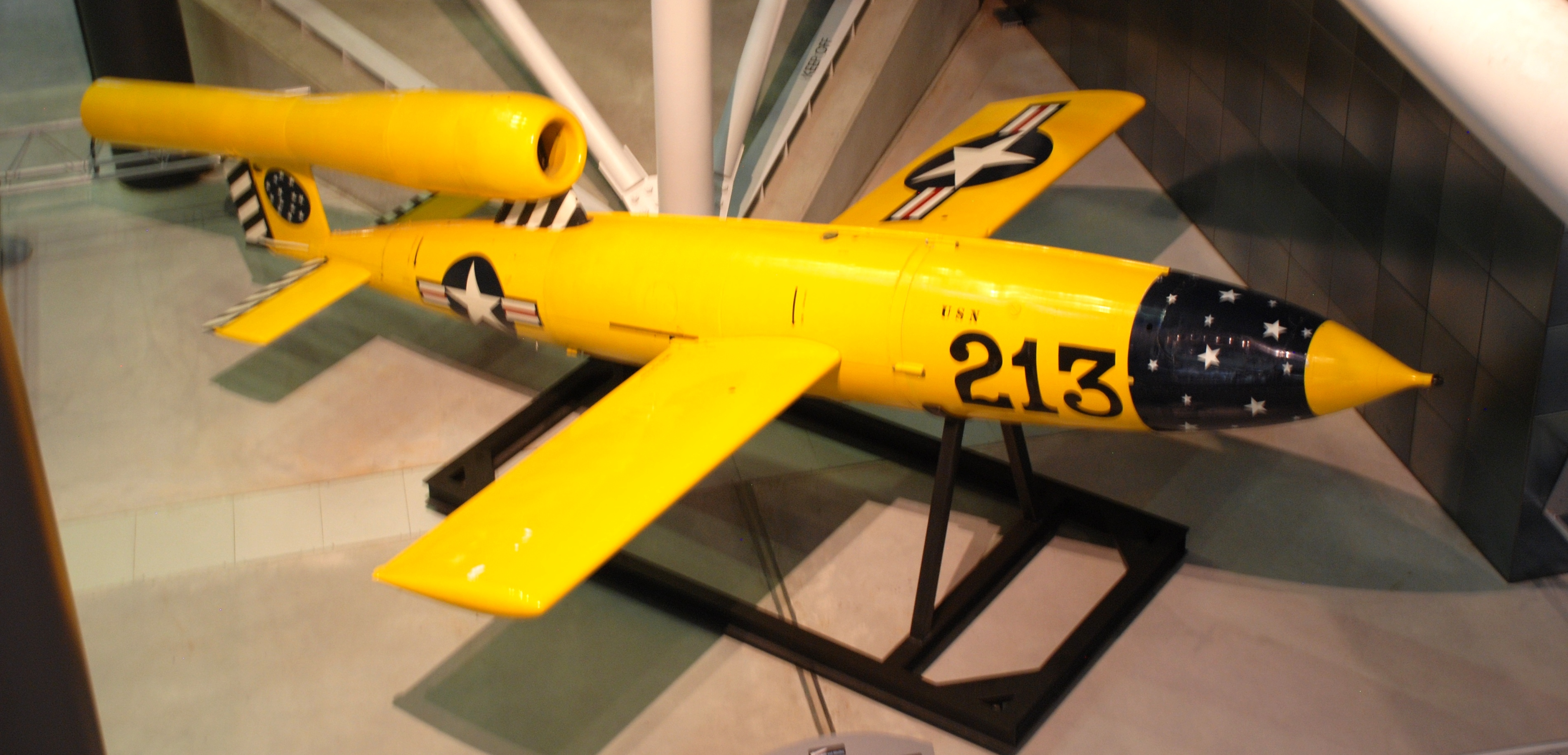 JB-2 -Loon Missile in Steven F. Udvar-Hazy Center Museum Information: Loon Missile, also called the JB-2 by the U.S. Army Air Forces, the Loon was an American copy of the German pulsejet-powered V-I ‘buzz bomb” of World War II. The long tube at the rear is the air-breathing pulsejet engine. Developed late in the war, the Loon was first test launched in October 1944. Loons could be launched from the ground, ships, or aircraft, but they were never used in combat. However, U.S. Navy and Army Air Forces personnel working with Loons gained invaluable experience in handling missiles. The program was canceled in 1950. The Loon was replaced by the faster and more powerful Regulus missile. Length: 8.2 m (27 ft) Weight, loaded: 2,700 kg (6.000 lb) Weight, warhead: 998 kg (2,200 lb) Range: 242 km (150 mi) Thrust: 2,224 N (500 lb) Propellant: gasoline Manufacturer: Ford Motor Co